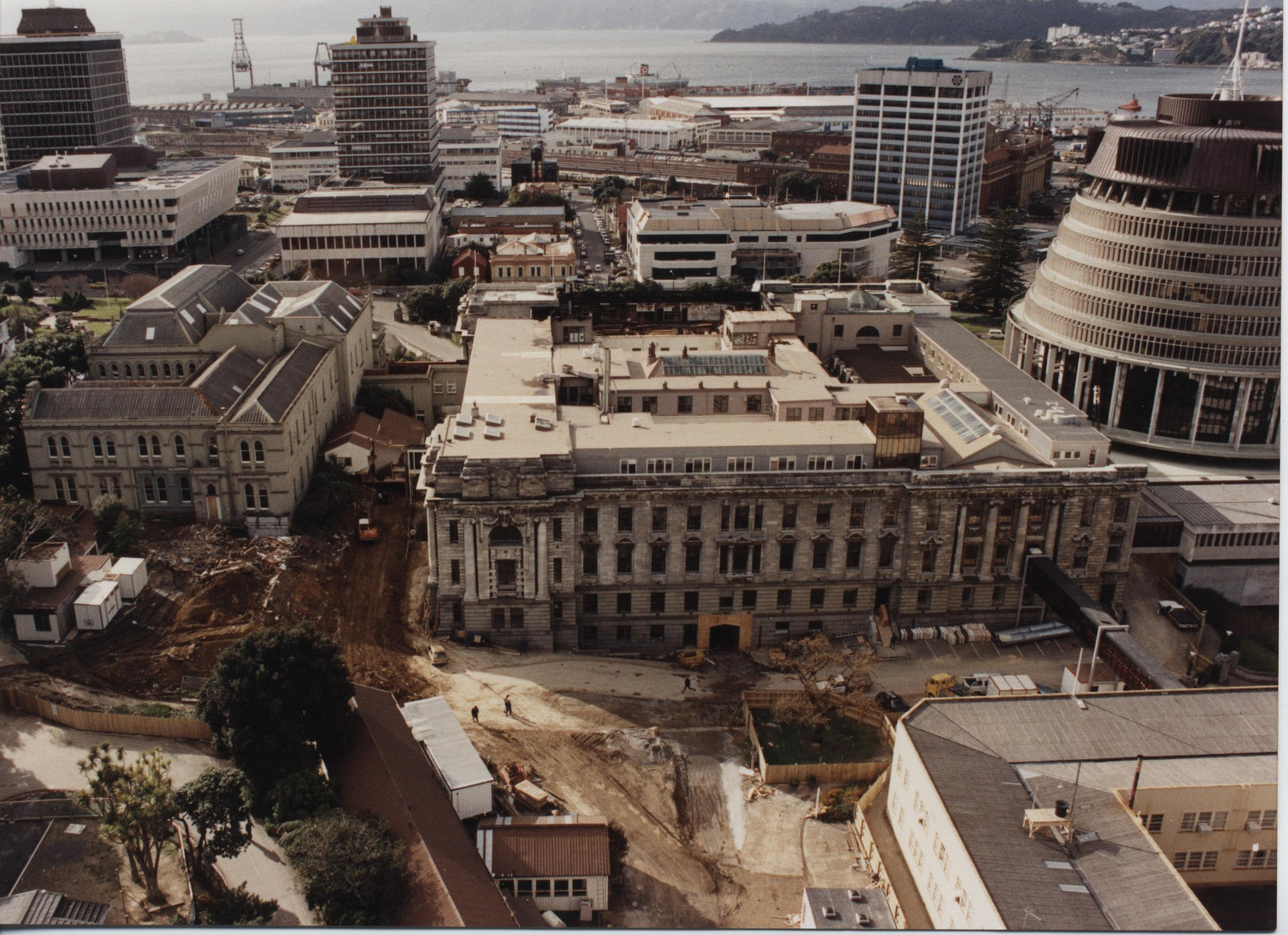 In 1991, work began to renovate and strengthen Parliament House and the Parliamentary Library — classified as heritage buildings but threatened with demolition because of earthquake risk. The renovation project was the largest in New Zealand’s history. The construction site is pictured here in August 1992.